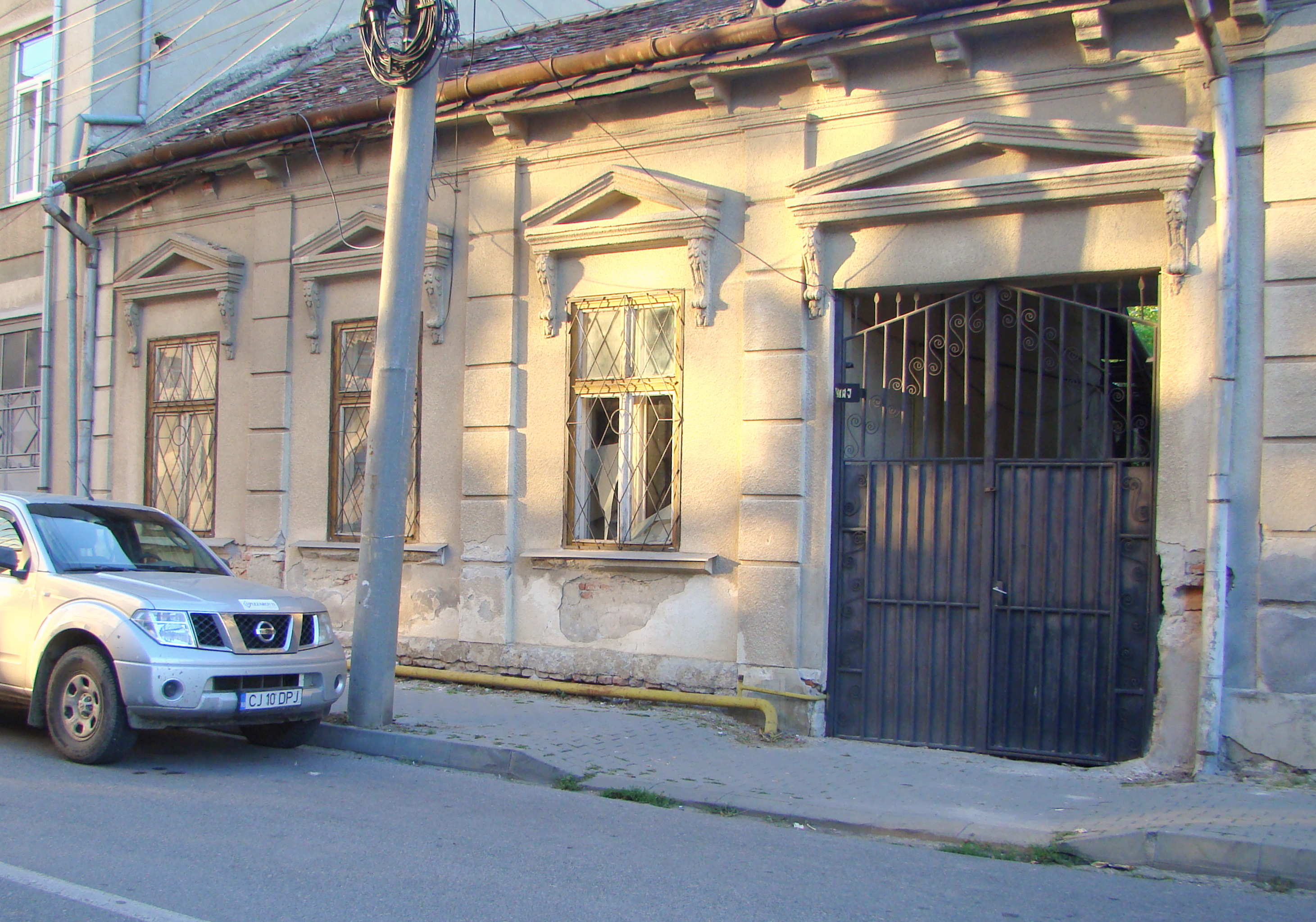 House, historic monument, Primăverii street, number 3, Alba Iulia, Alba county, Romania